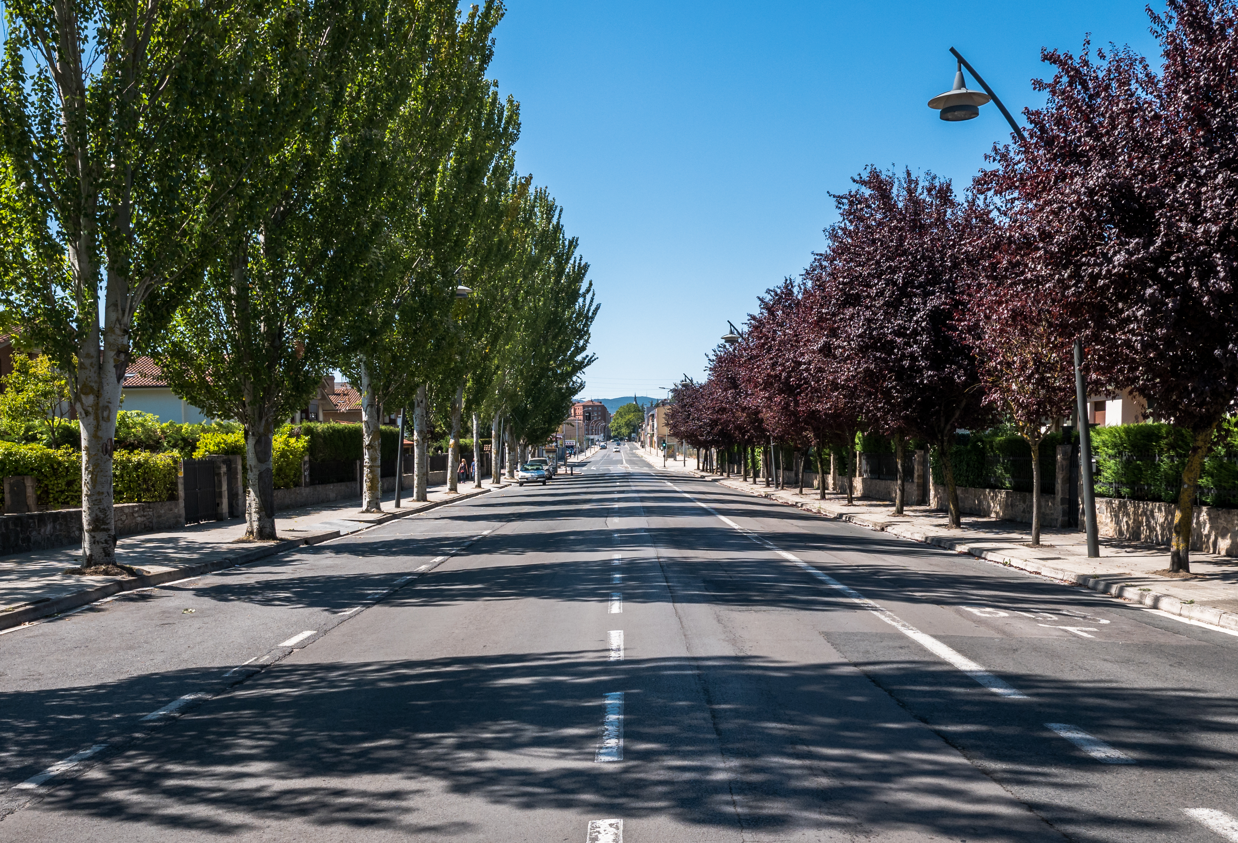 Portal de Betoño Street in August. Vitoria-Gasteiz, Basque Country, Spain